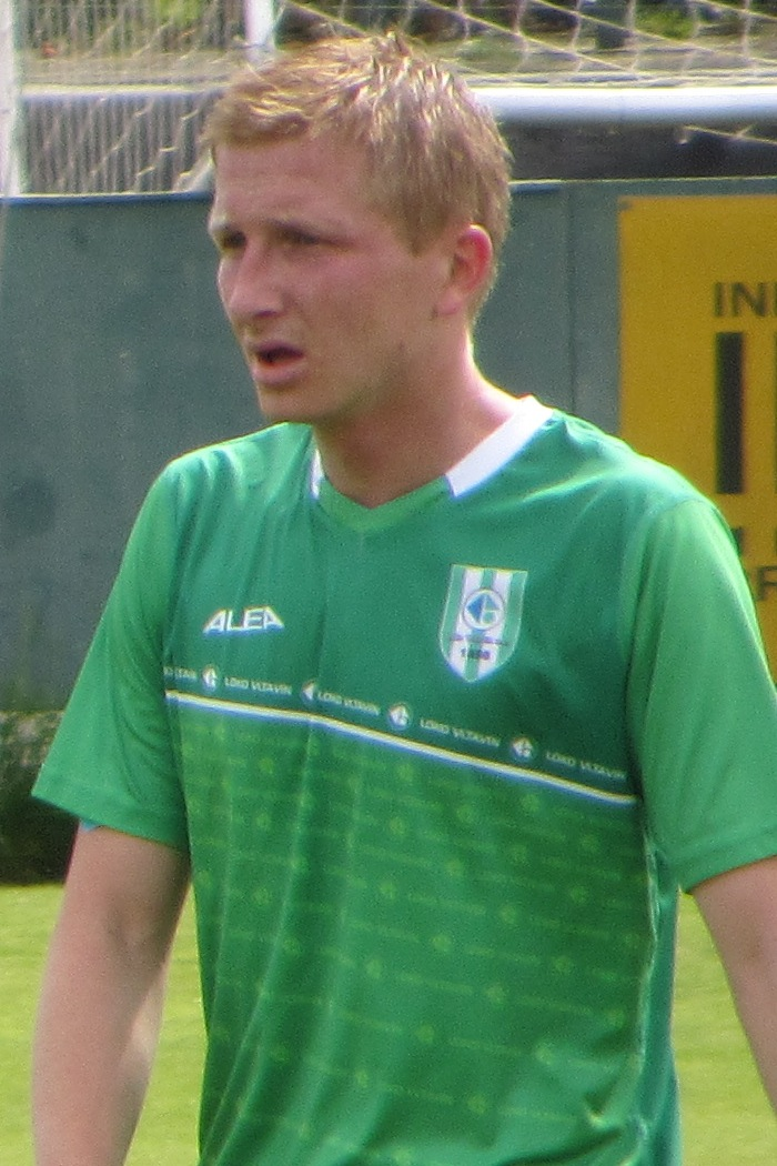 Michal Pávek of Loko Vltavín during the match against FC Táborsko